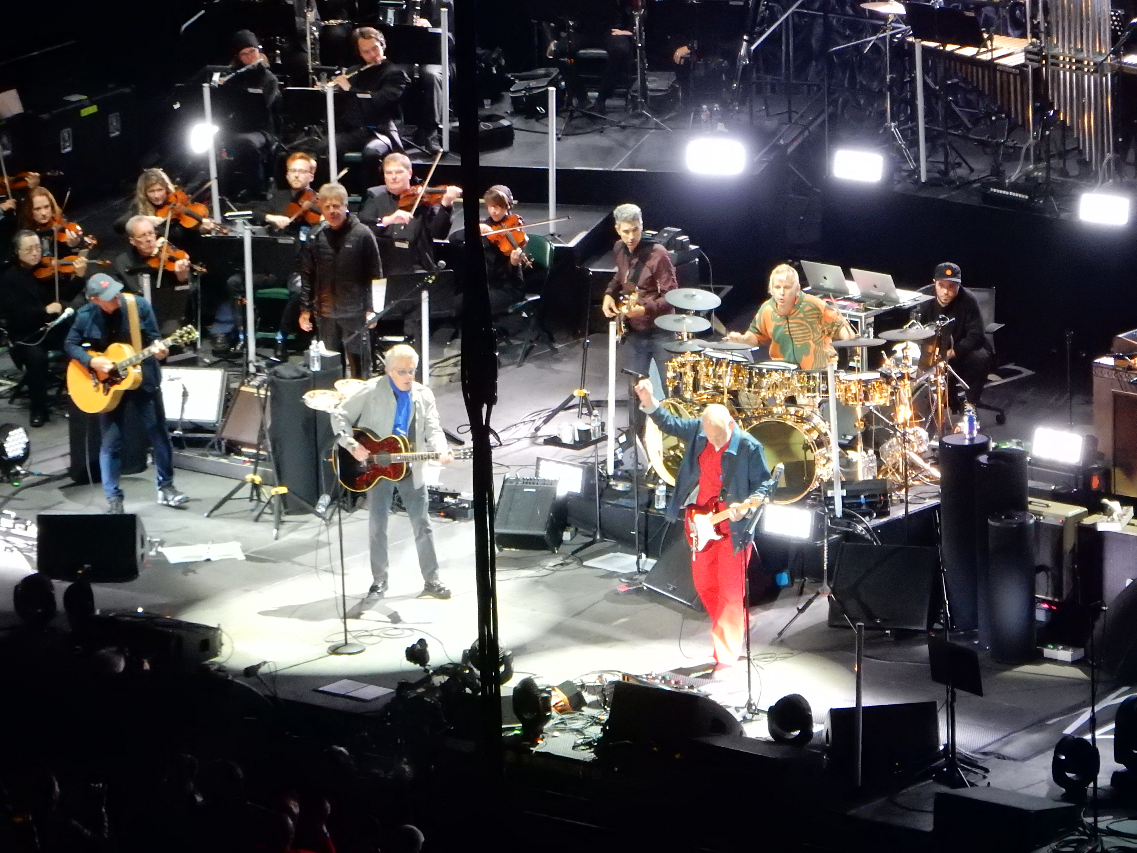 The Who Movin On! Tour at T-Mobile Park on 10/19/19